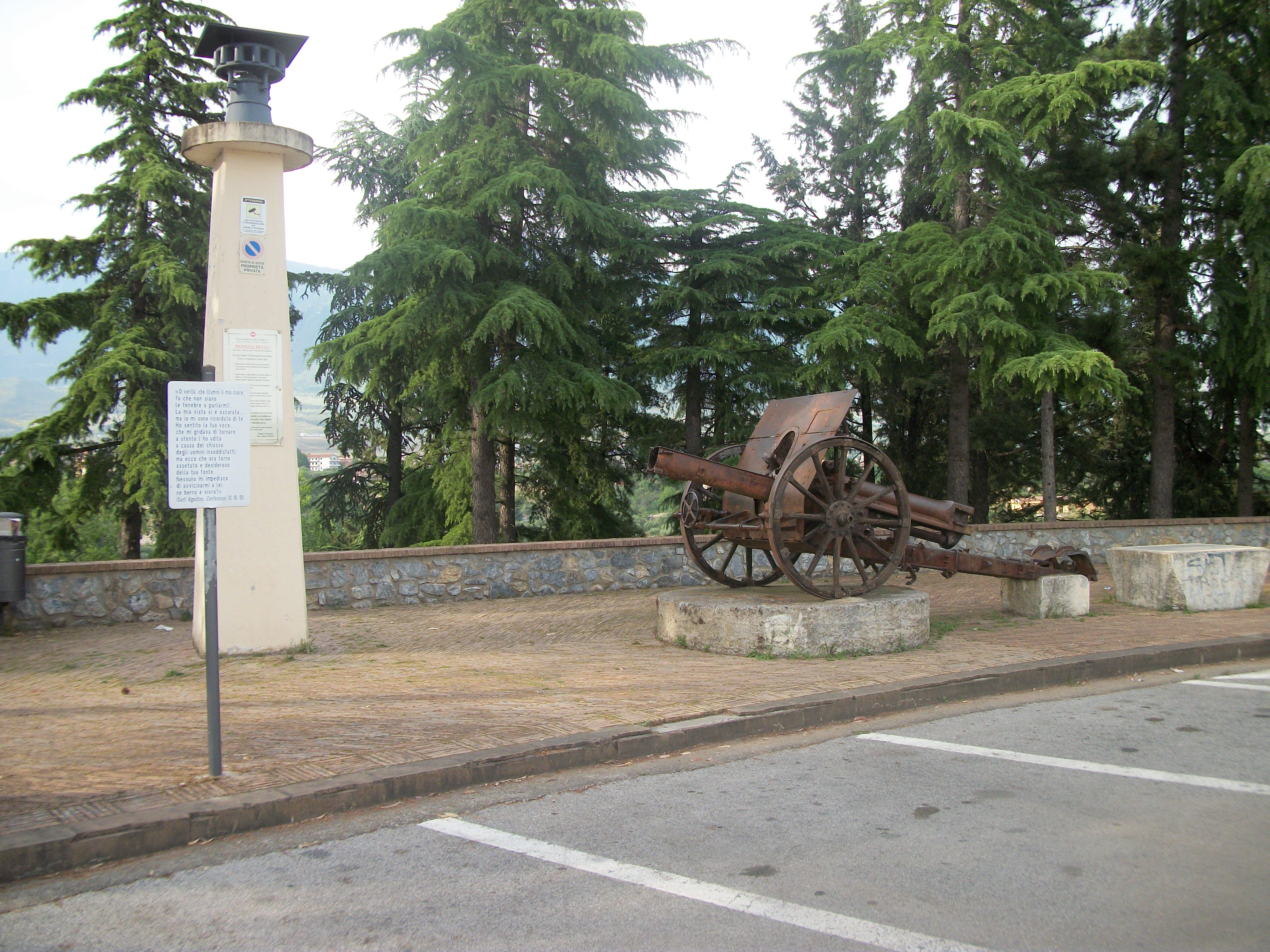 Anti-aircraft alarm and cannon on the esplanade of Madonna del Castello Shrine